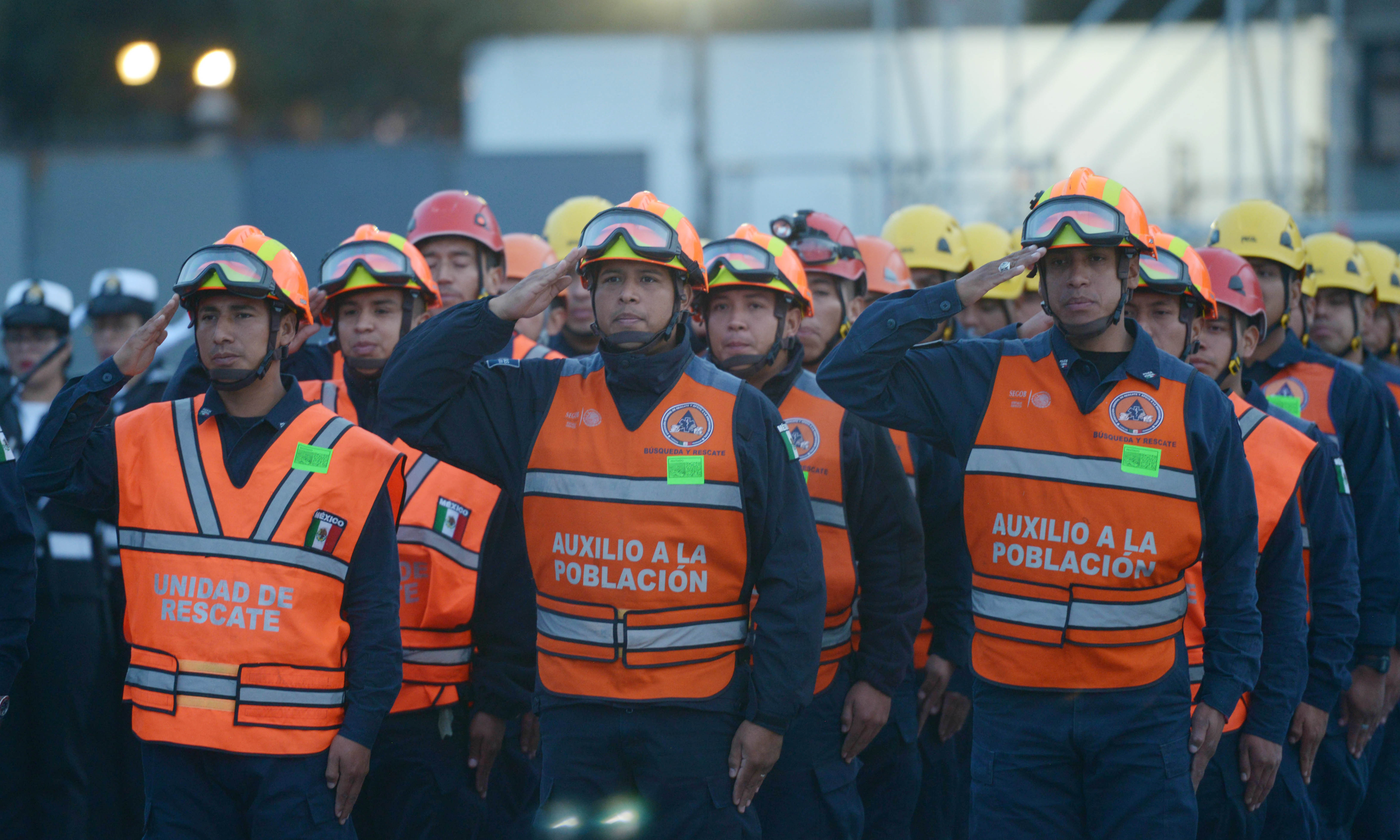 Izamiento de la Bandera Nacional en Memoria de las personas que perdieron la vida en el sismo de 1985